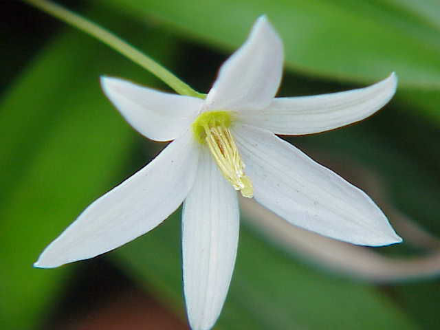 Species: Talbotia elegans Family: Velloziaceae Image No. 2